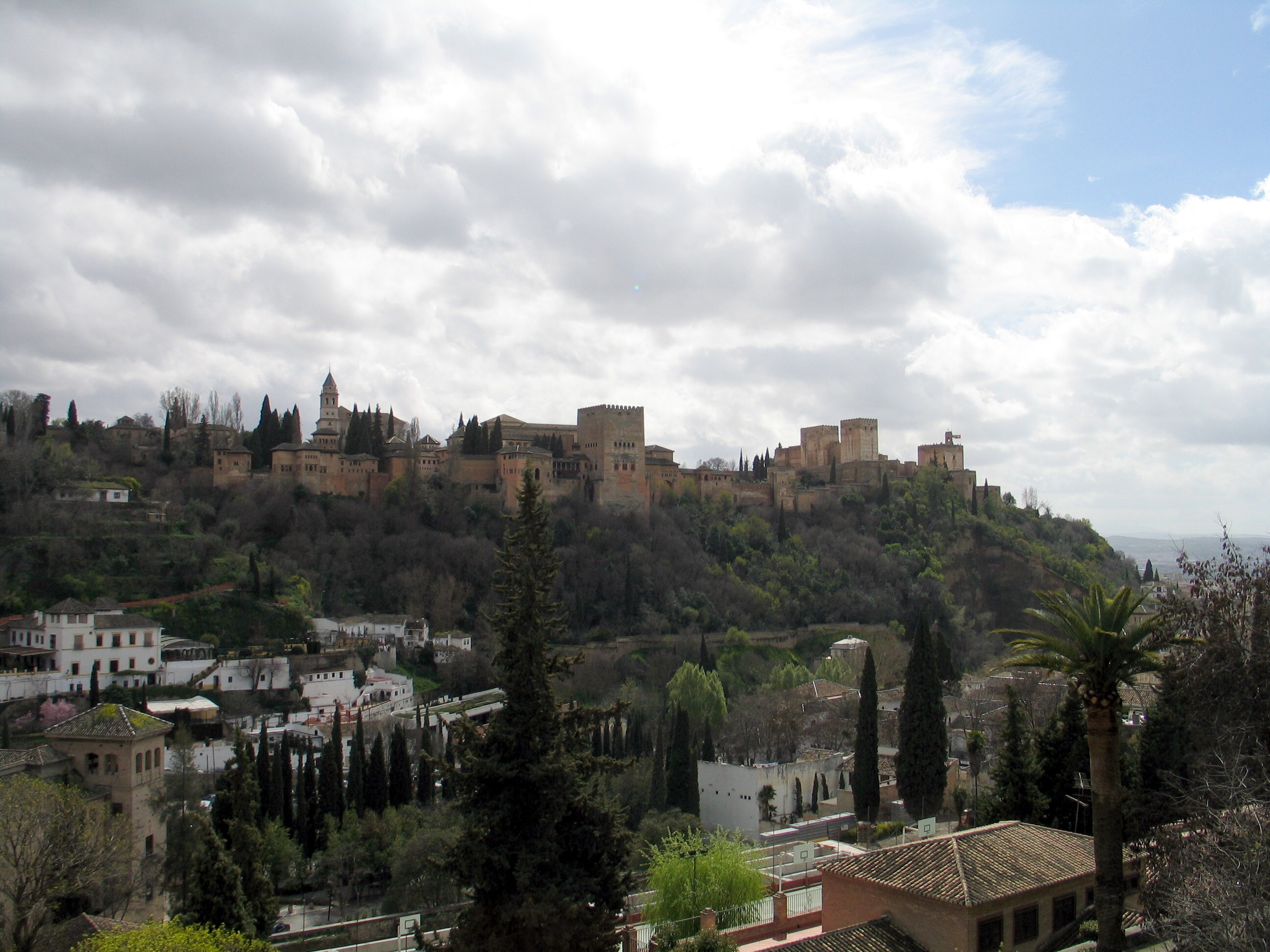 Alhambra castle seen from Sacromonte barrio